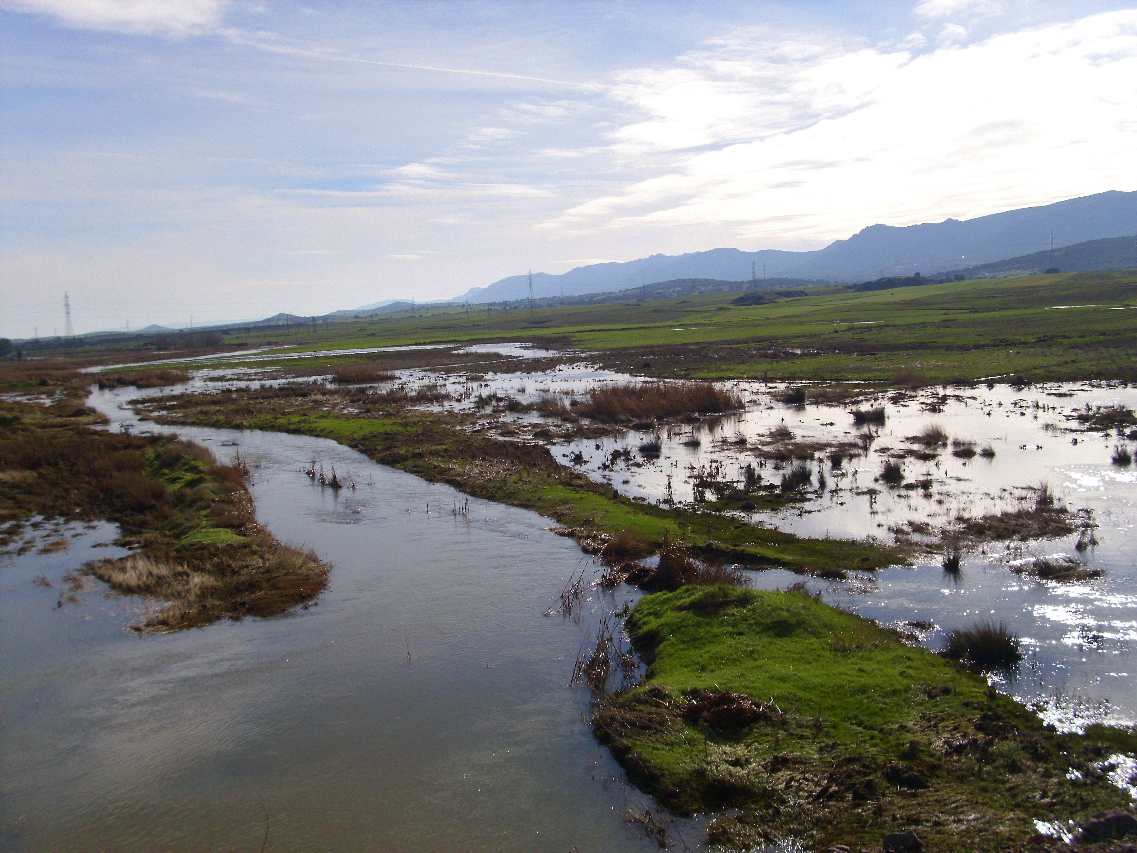 Ojailén river tributary of Fresnedas river from Empresas bridge, Campo de Calatrava, Spain